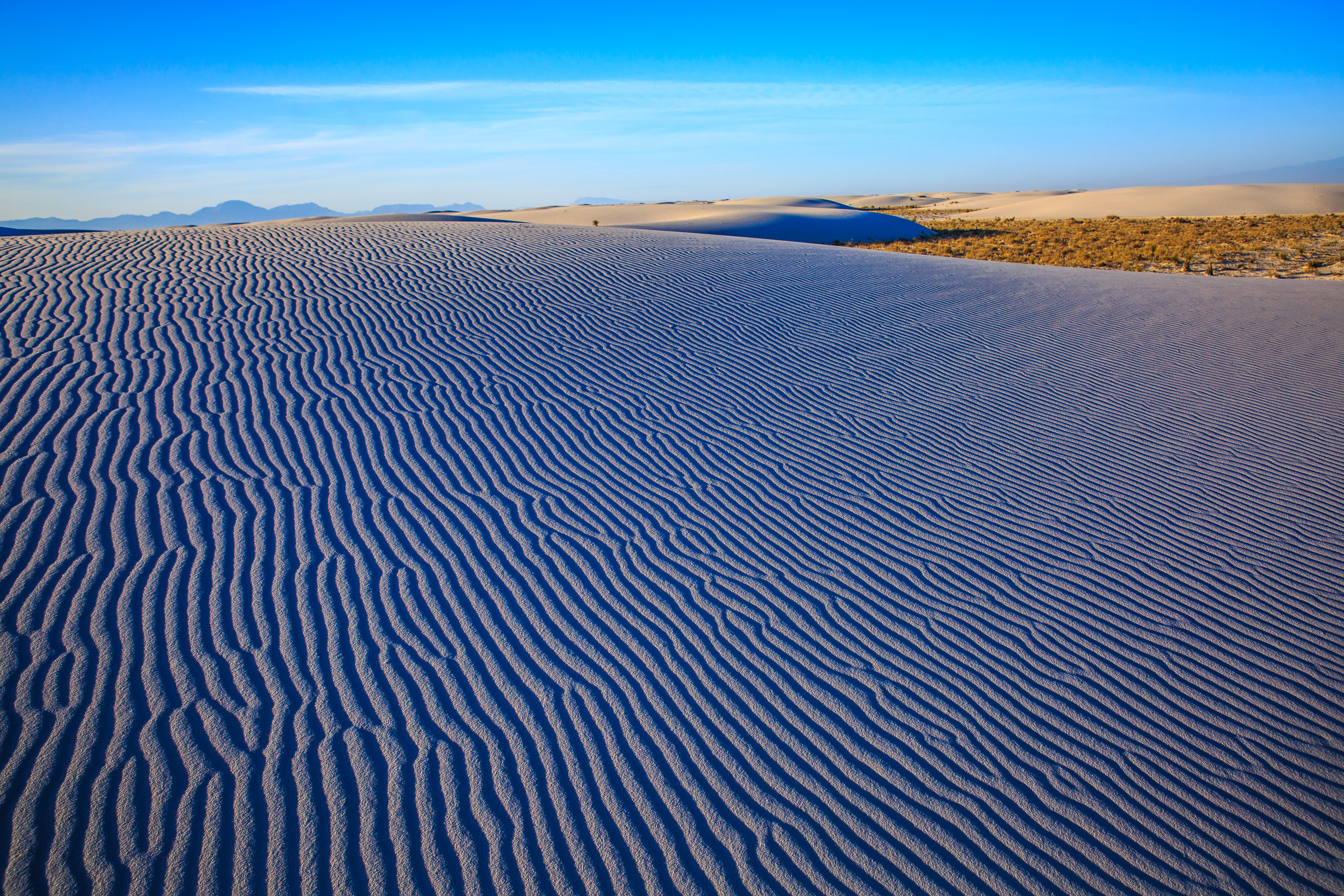 White Sands National Monument - New Mexico...late evening...